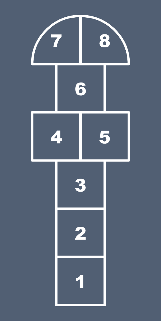 Șotron (eng. Hopscotch)